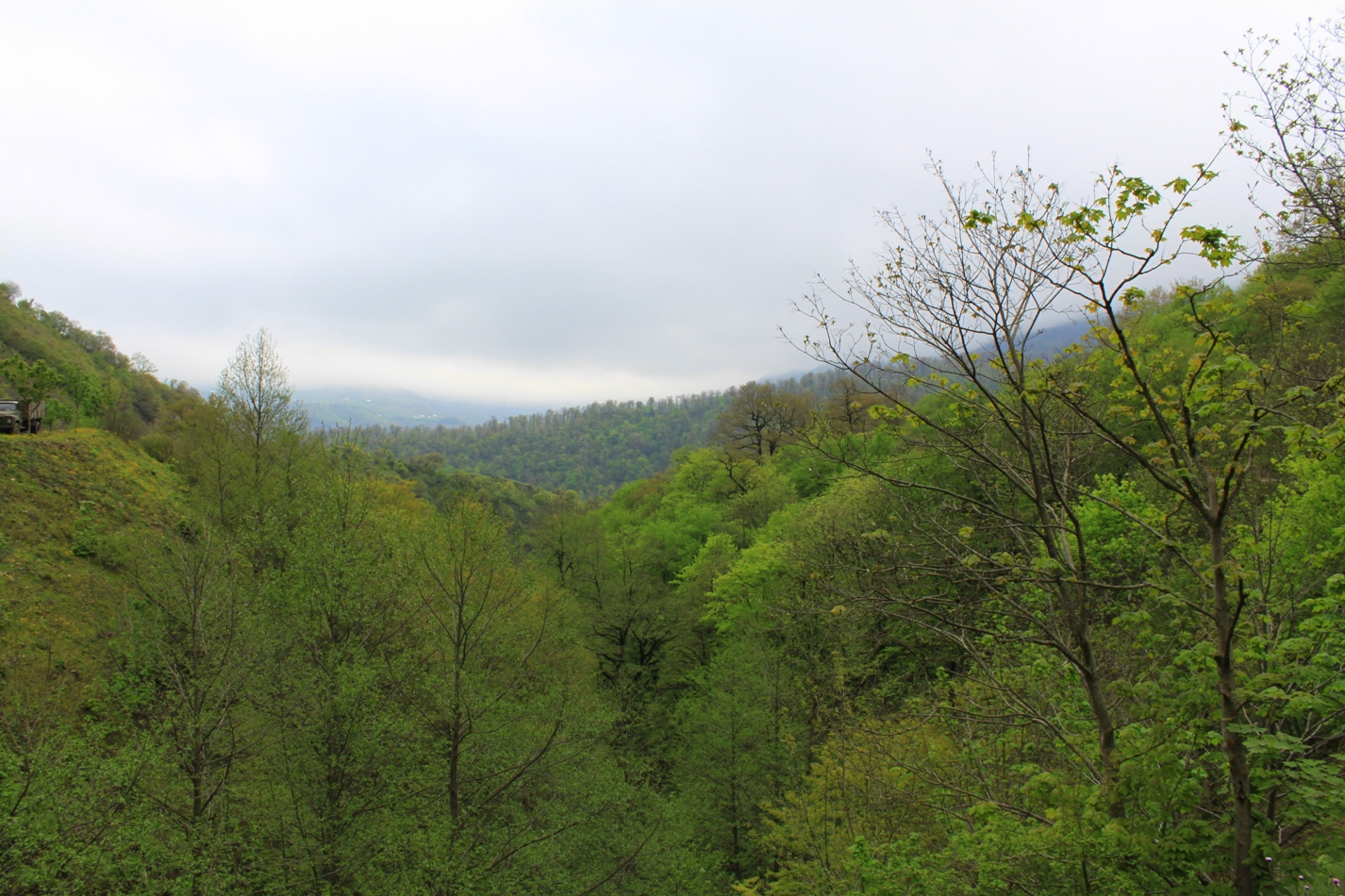 Yardimli, Azerbaijan